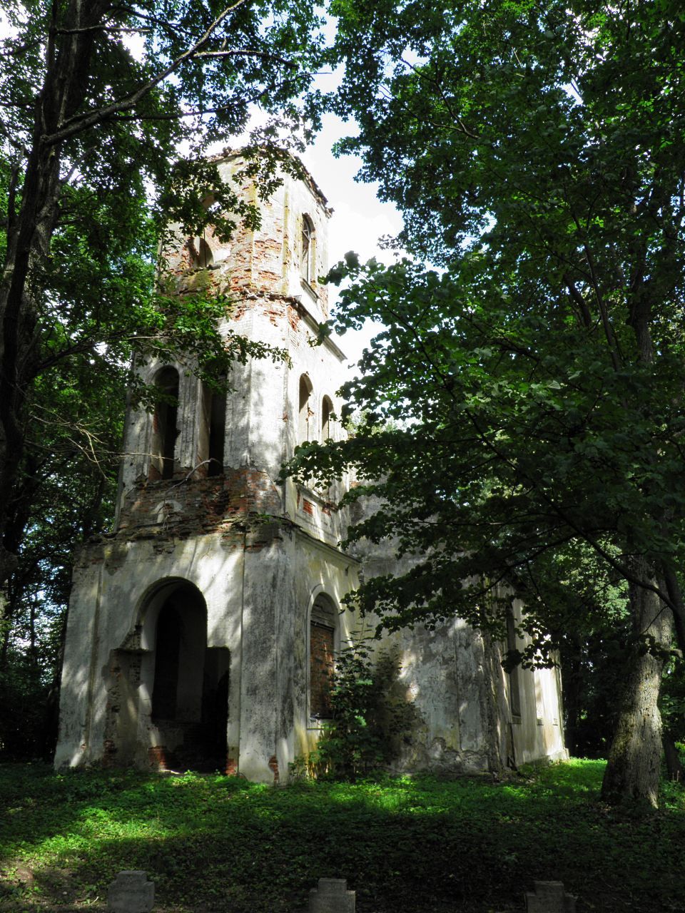 Ēģipte lutheran church